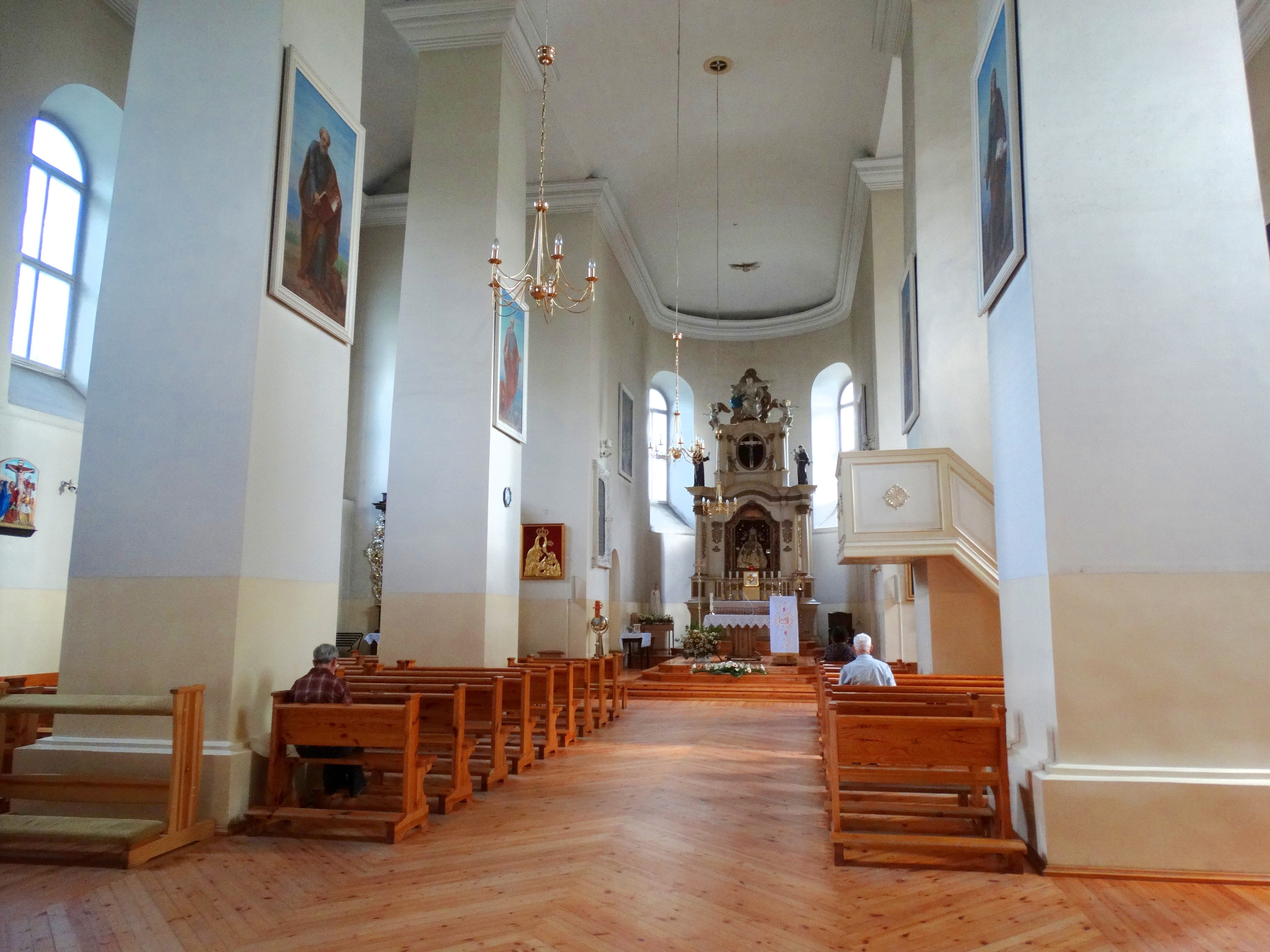 St. Michael Archangel church, Nemenčinė, Vilnius District, Lithuania